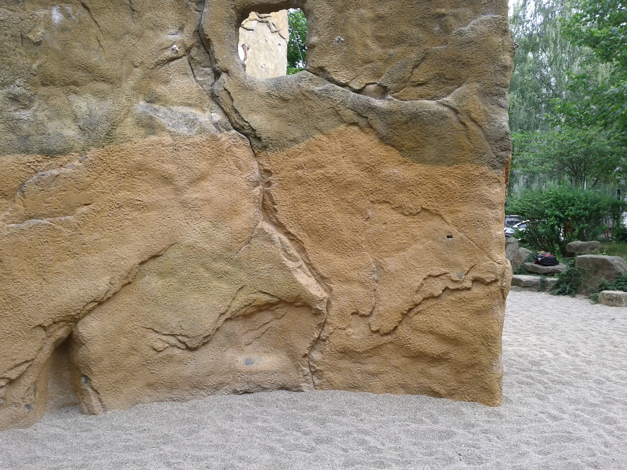 Climbing tower Kirchbachspitze, Berlin, Fall protection gravel